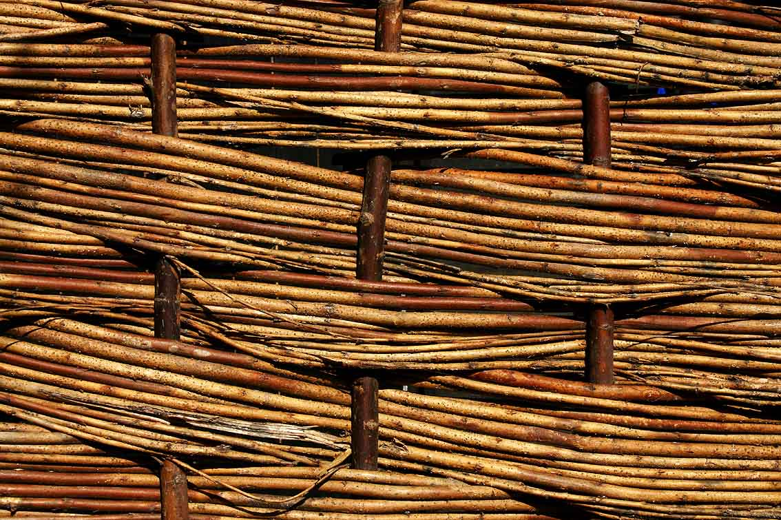 Willow Weave Fence. Chobham Surrey UK